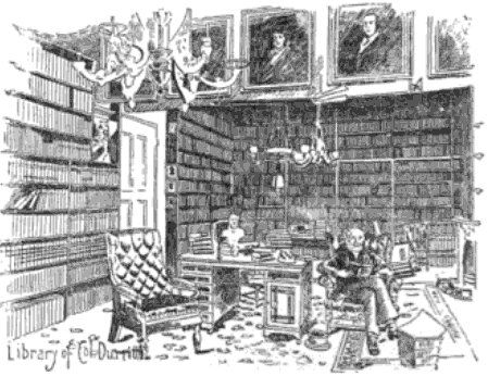 Reuben T. Durrett's personal library in Louisville, Ky.